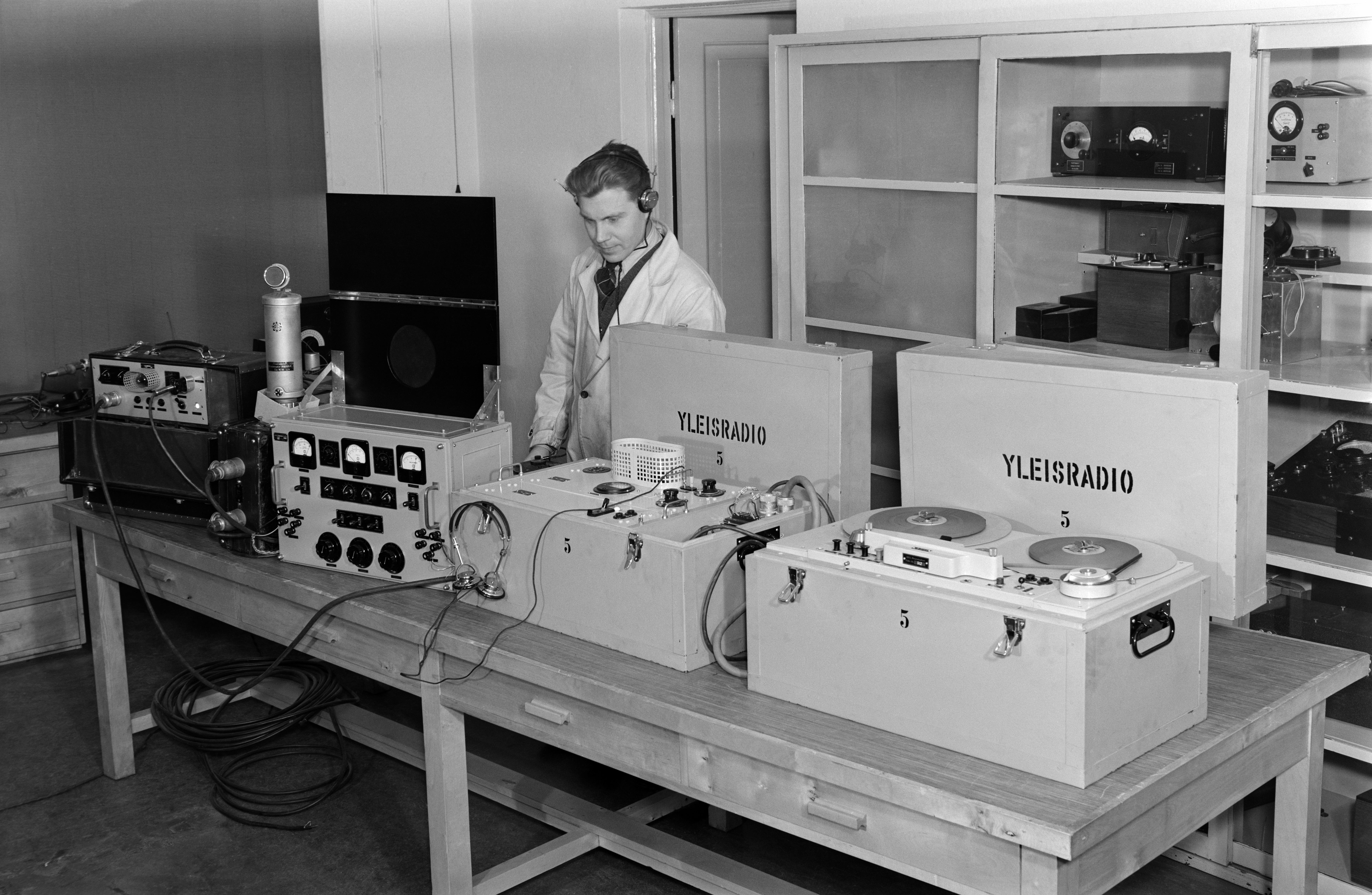 More about Yle, the Finnish Broadcasting Company